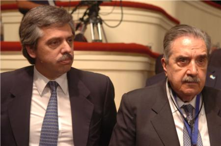 Alberto Fernández (left), Chief of Cabinet to the President of Argentina, and former President Raúl Alfonsín, during the opening ceremony of the Fourth Summit of the Americas in Mar del Plata, Argentina, on 4 November 2005.